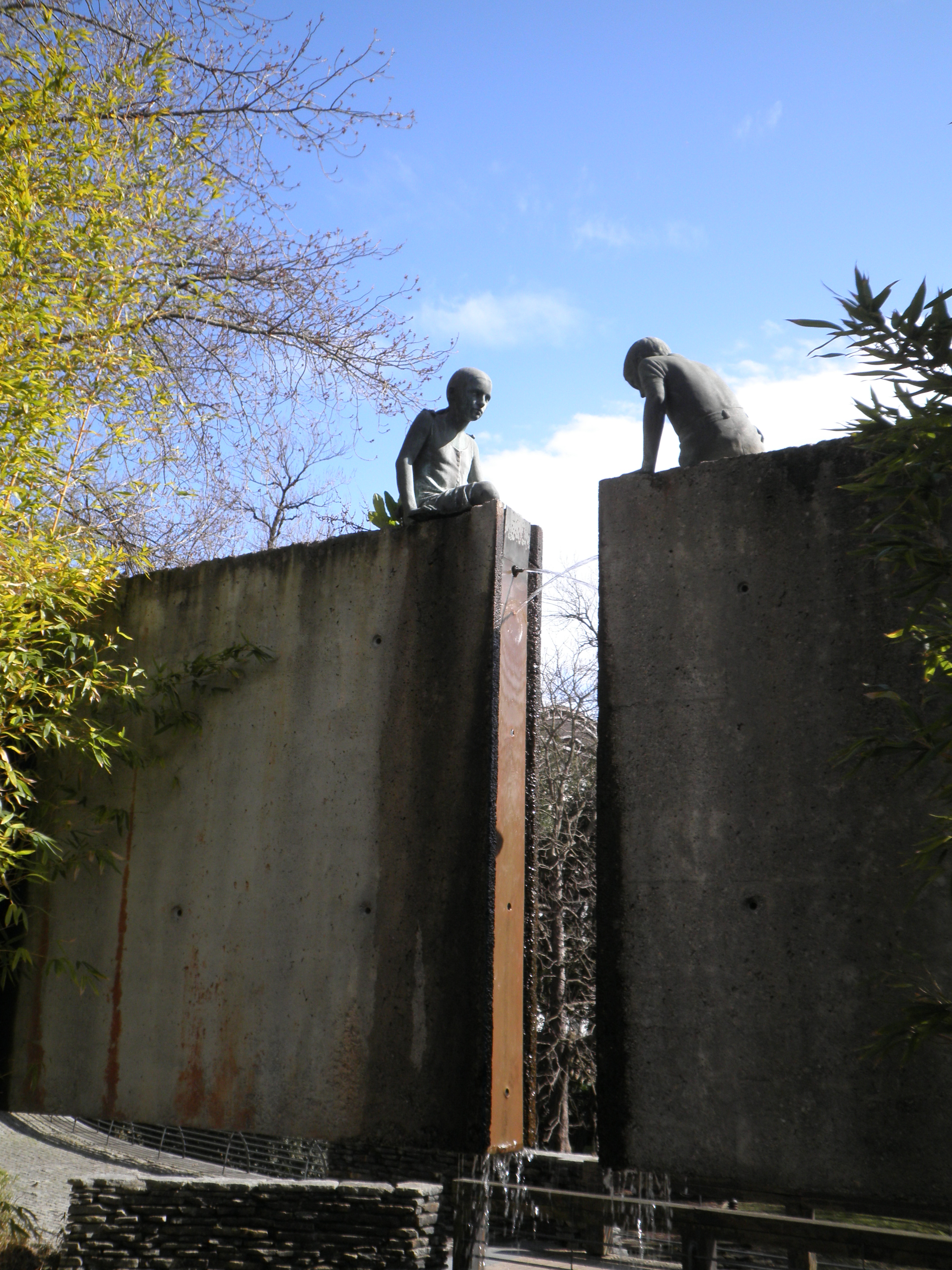 Children sculpture in Donostia